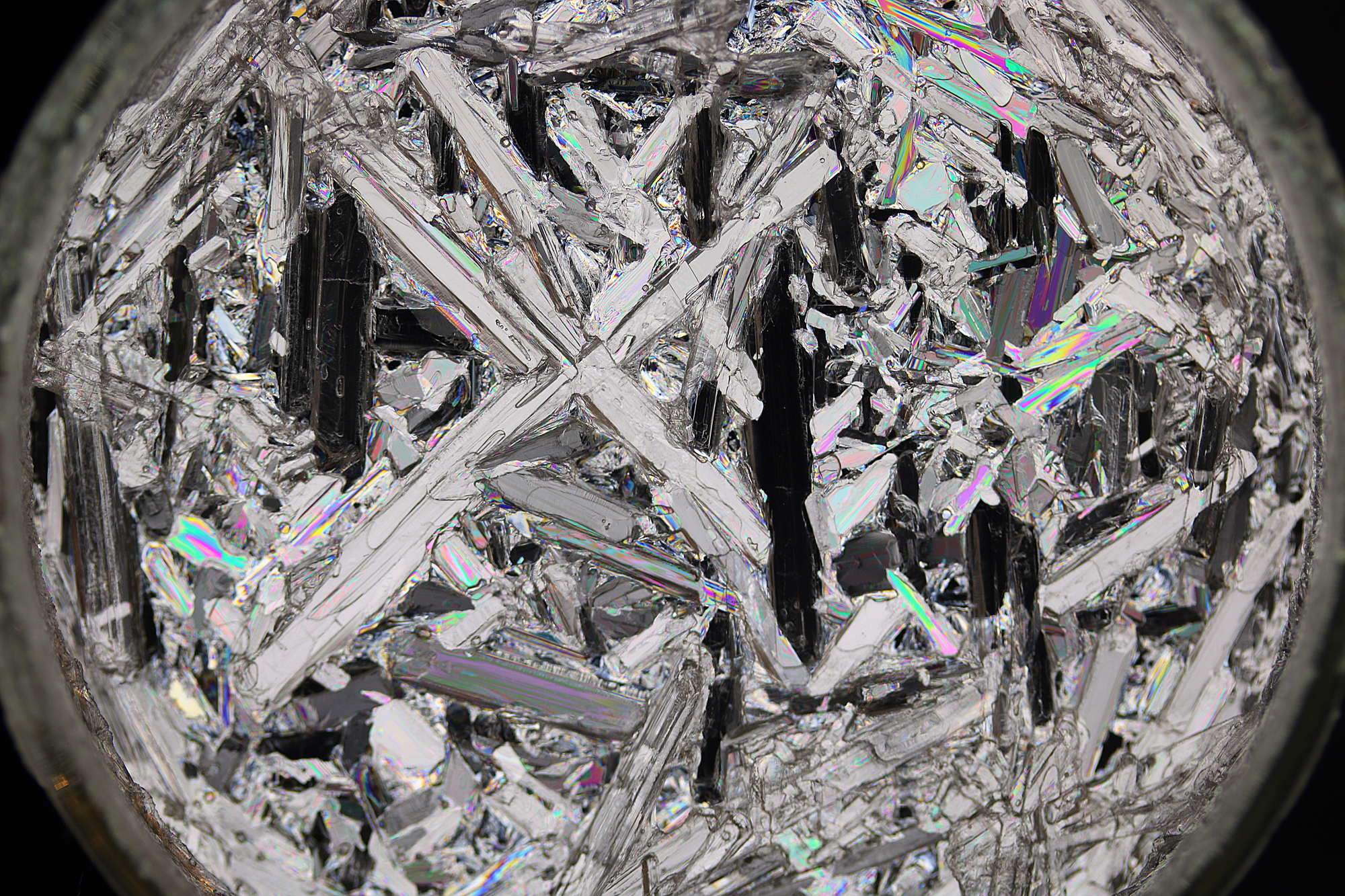 Magnesium sulfate heptahydrate, cristallized from solution, macroscopic image in polarized light